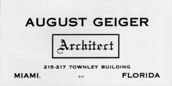 August Geiger, advertisement for architectural services; a c. 1915 notice published in the Official Directory of the City of Miami, Florida.